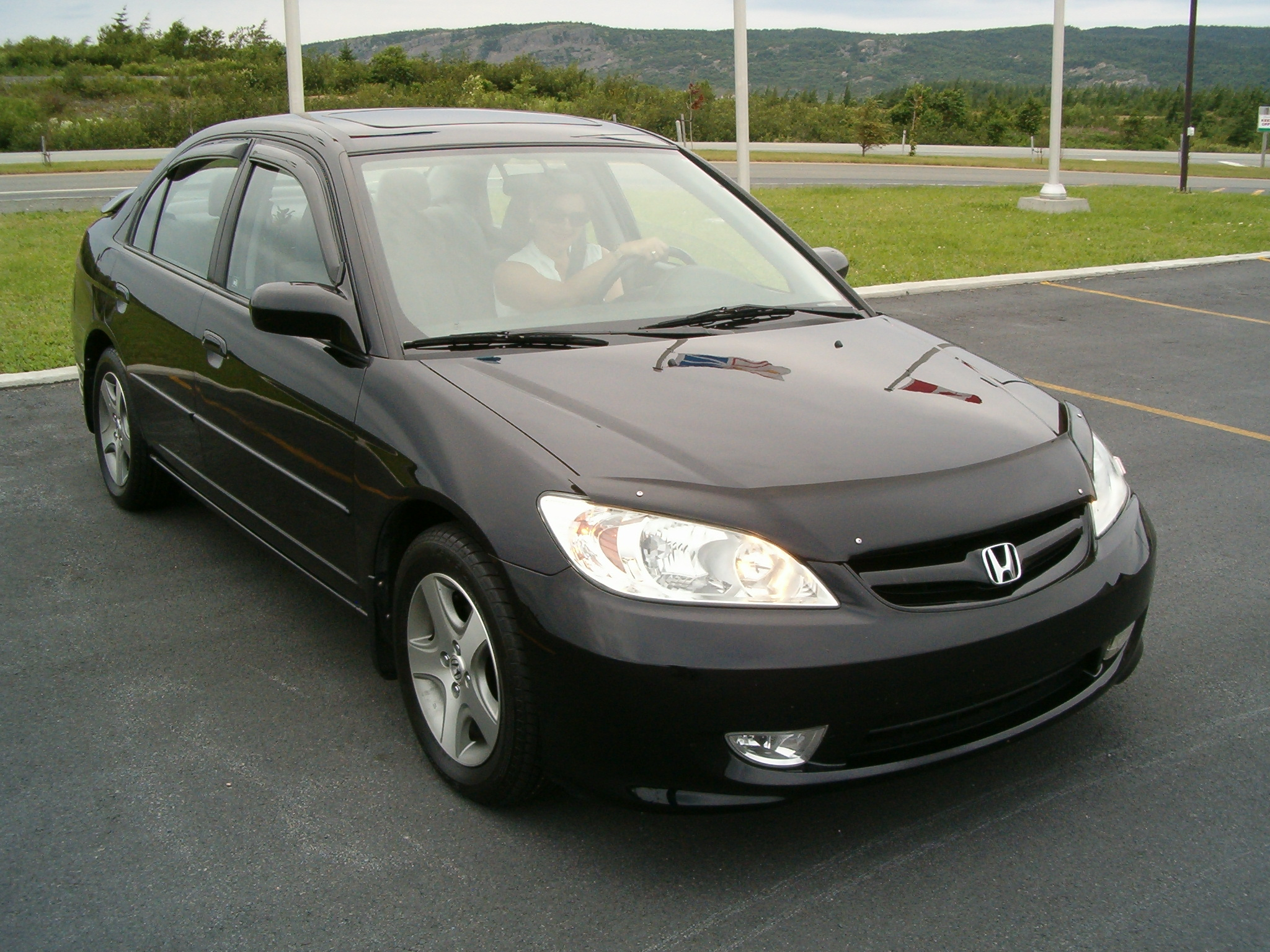 2004 Civic Si Sedan, purchased in Canada. This model was only created for 2004. There was also a Coupé version.